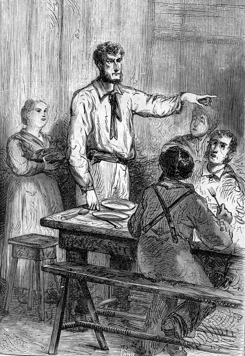 An ilustration from the novel "In Search of the Castaways; or Captain Grant's Children" by Jules Verne drawn by Édouard Riou.